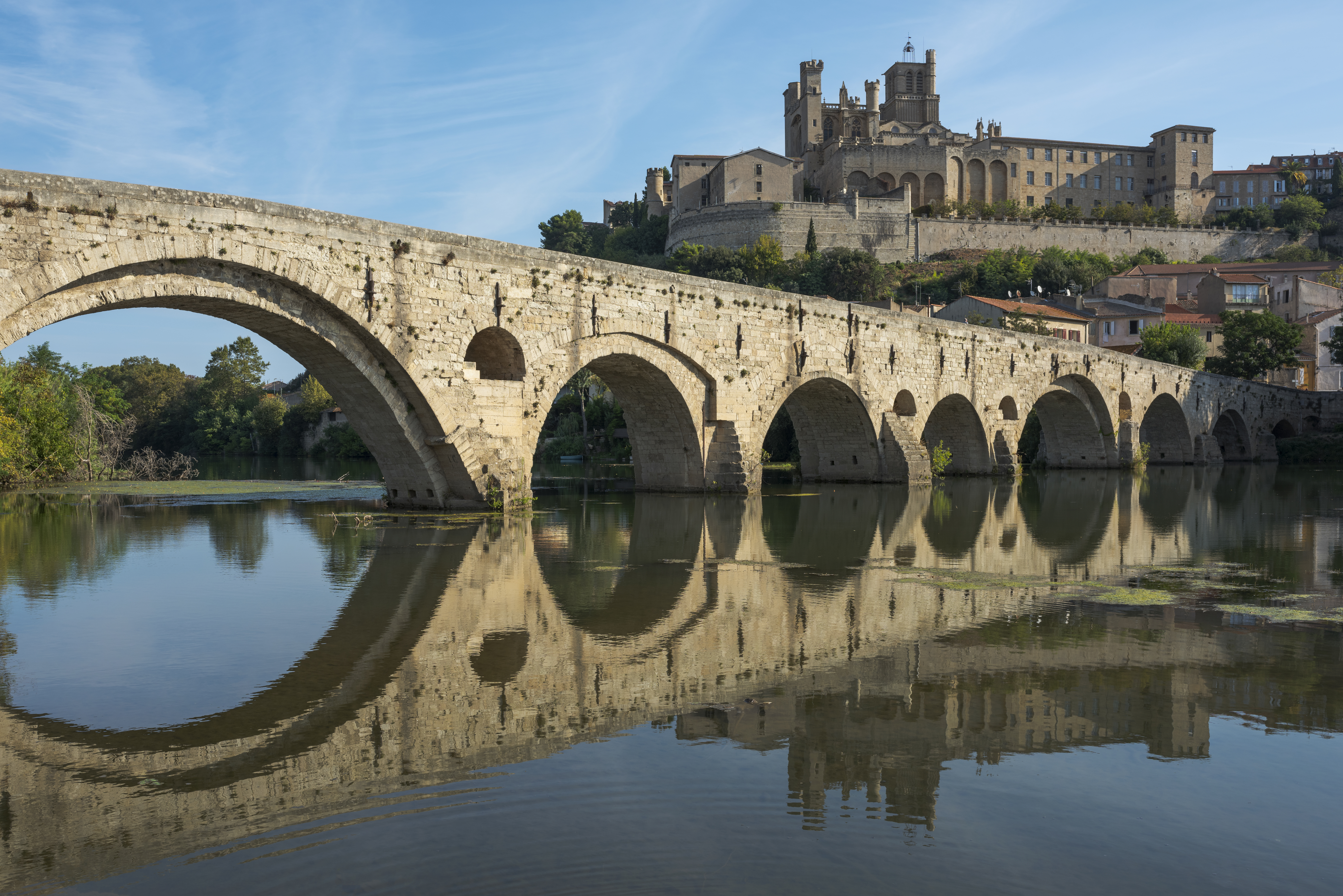 Pont Vieux de Béziers (bridge) mirrored in the Orb River and Cathédrale Saint-Nazaire de Béziers. Béziers, Hérault, France